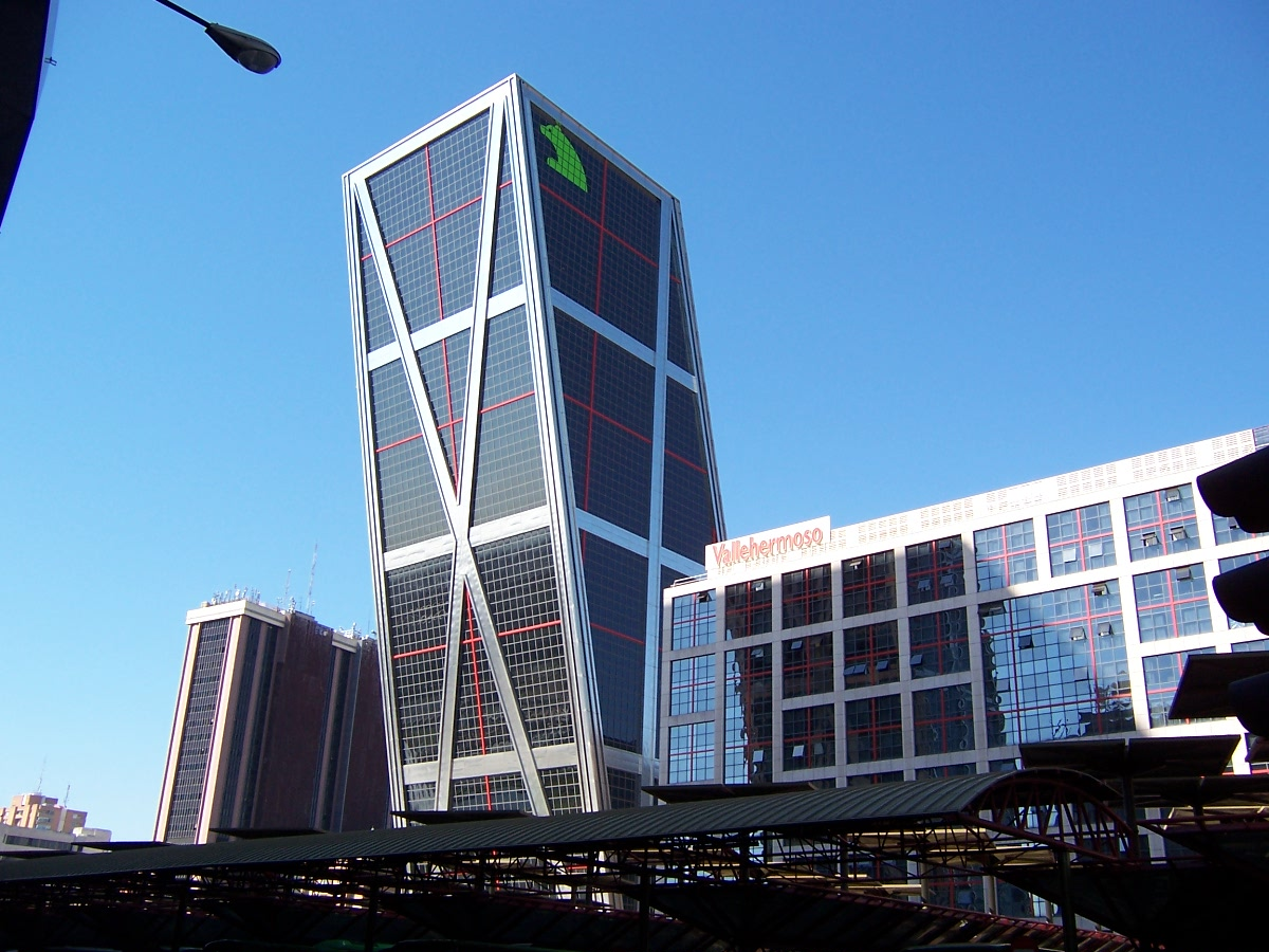 Madrid, Spain. Source: Csörföly D